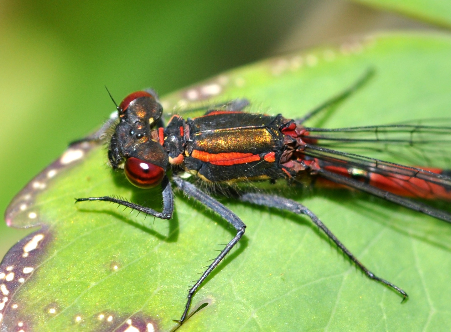 Female Large Red Damselfly (Pyrrhosoma nymphula f. typica) found in Sauerland, Germany. Weibliche Frühe Adonislibelle (Pyrrhosoma nymphula f. typica) im Sauerland.